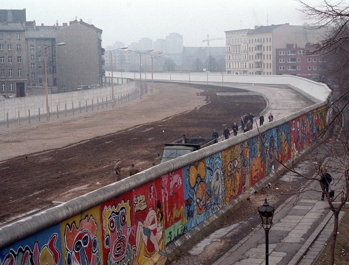 This image of the Berlin Wall was taken in 1986 by Thierry Noir at Bethaniendamm in Berlin-Kreuzberg.